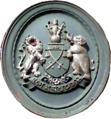 The royal seal of the Cooch Behar Kingdom